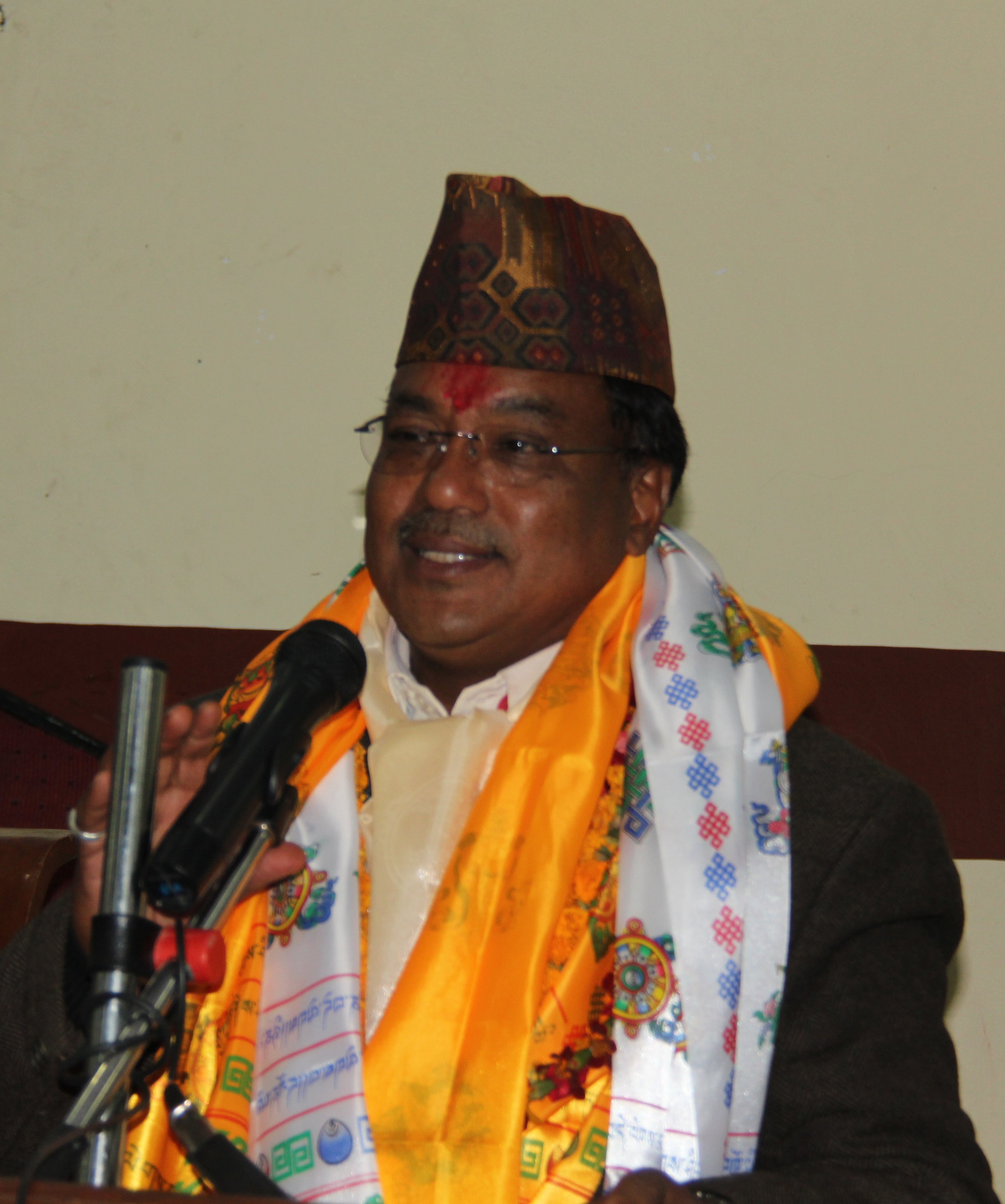 Chandra Maharjan in a program at Kathmandu.